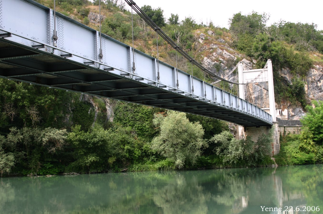 Yenne: Bridge over the Rhône.